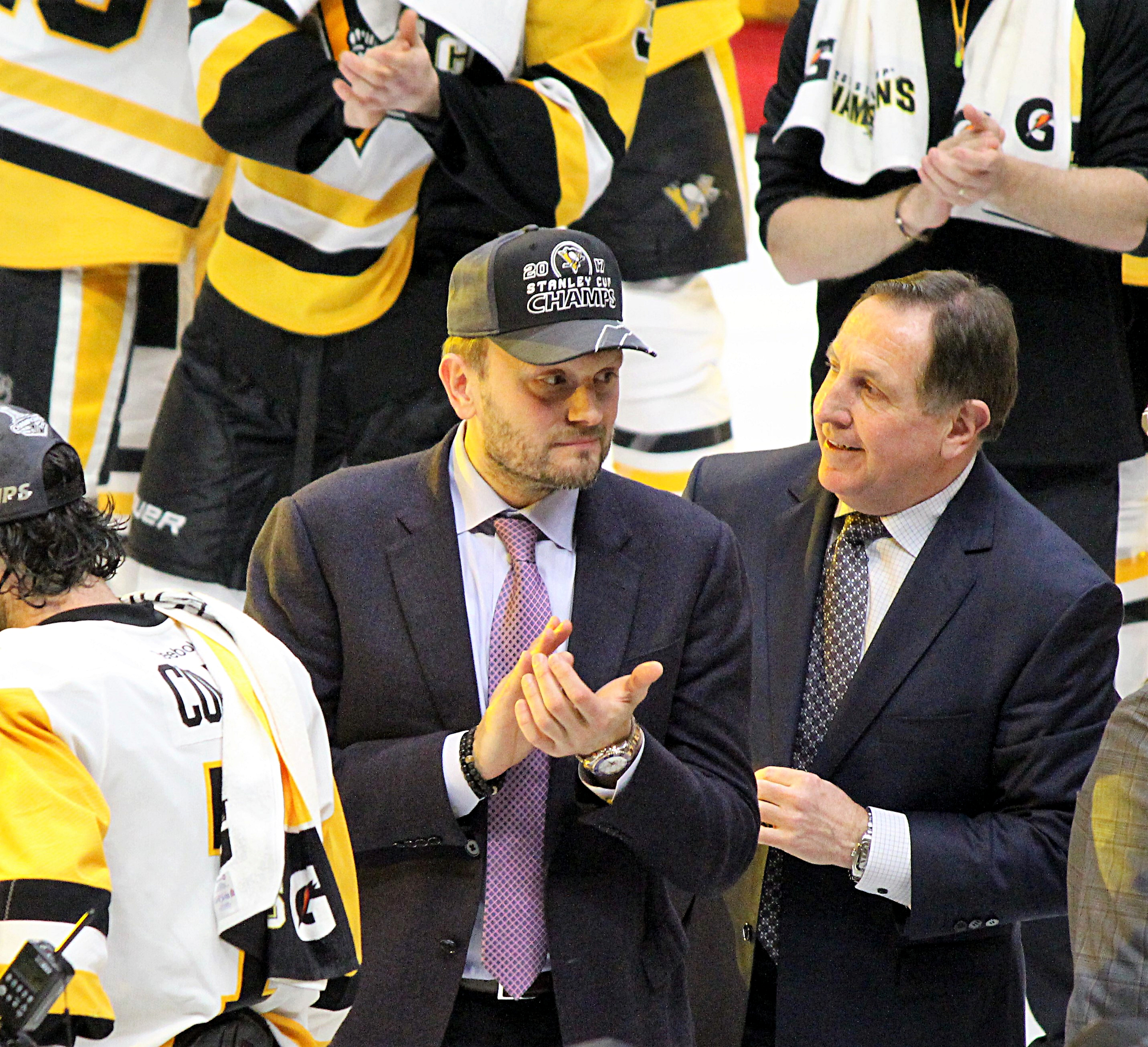 Pittsburgh Penguins assistant coaches Sergei Gonchar and Jacques Martin following the Pens 2017 Stanley Cup win in Nashville.